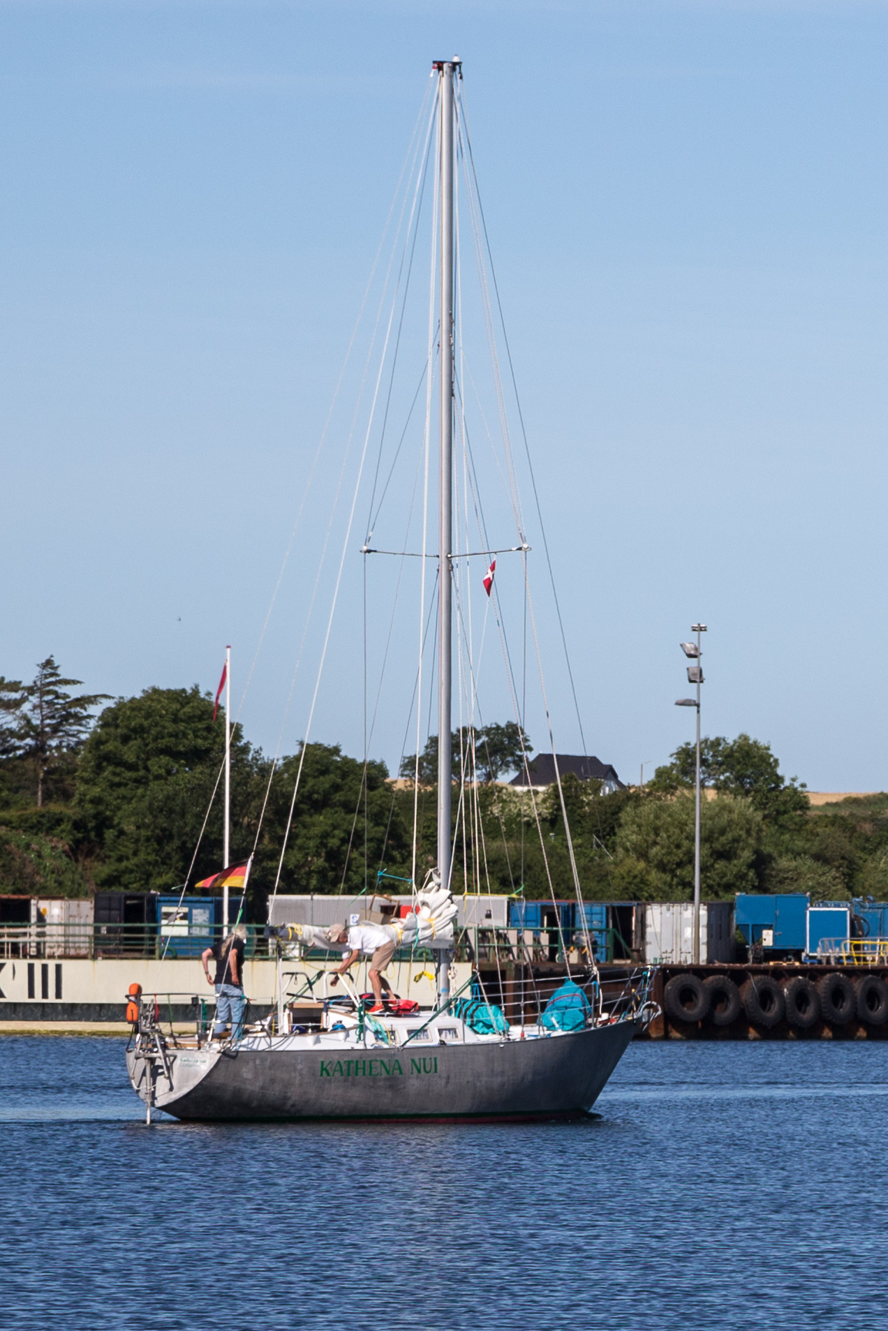 Kathena Nui in Søby (Ærø), 2015-08